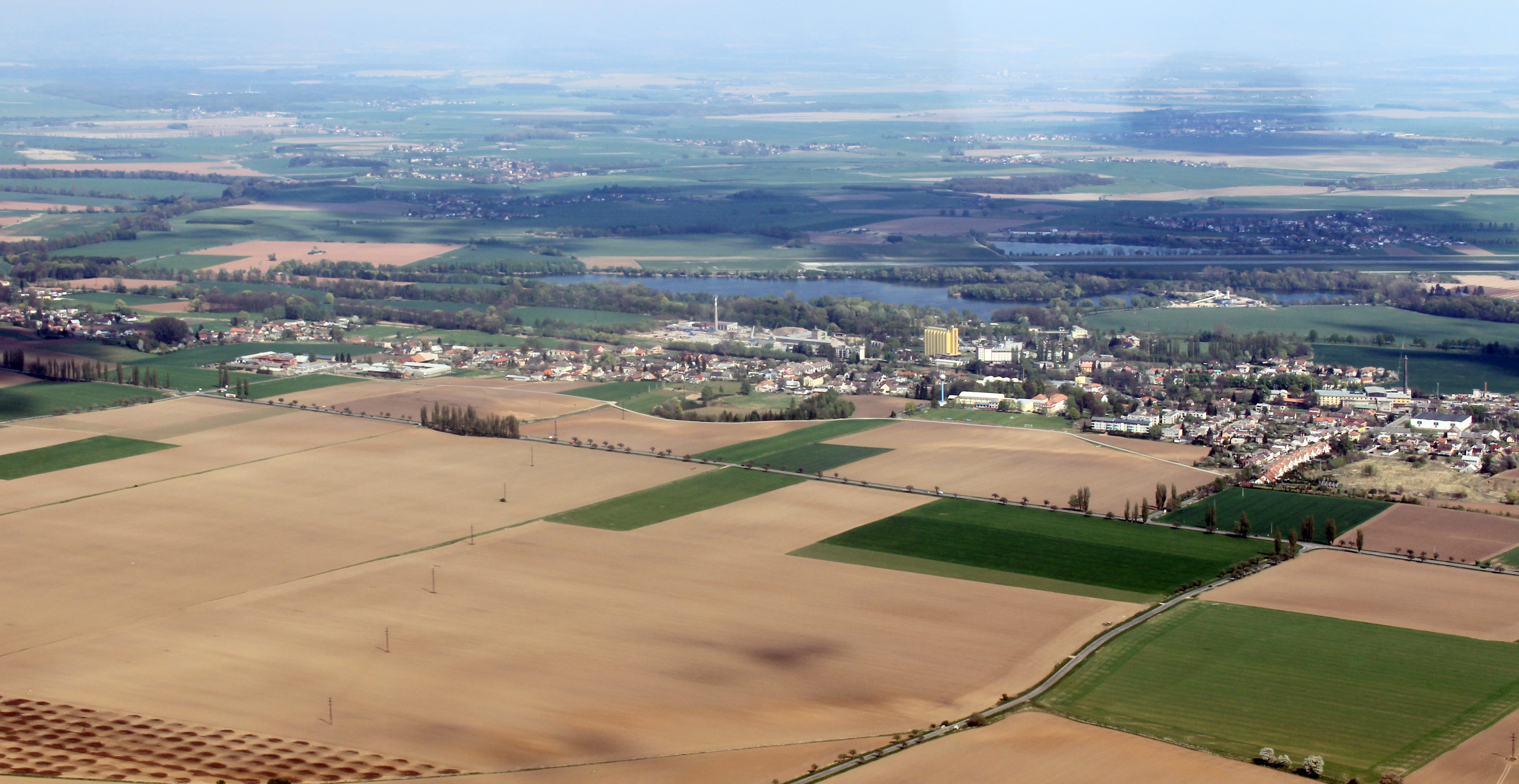 Village Předměřice nad Labem from air, eastern Bohemia, Czech Republic